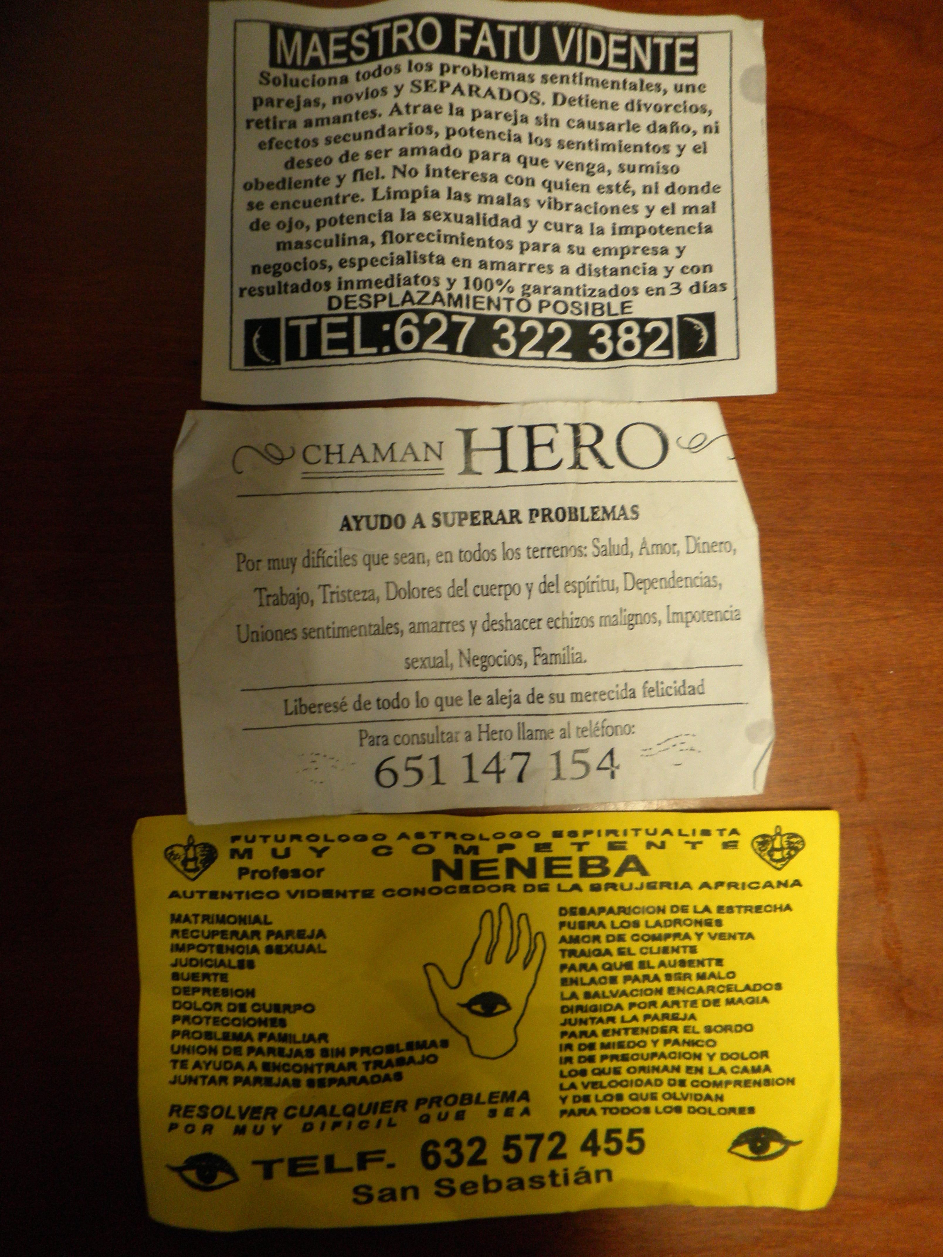 Witchcraft advertisings in Spanish.